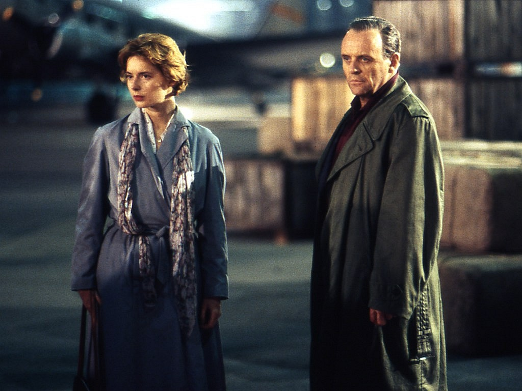 Isabella Rossellini and Anthony Hopkins on location at Tempelhof Airport in Berlin to shoot some scenes for the movie "The Innocent"